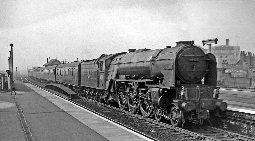 Down ECML express passing Finsbury Park Station. View southward, towards King's Cross and the City; ex-GN London - Peterborough - Doncaster etc. East Coast Main Line. Finsbury Park (with 10 platforms) is the focus of several suburban and connecting lines. The train is on the Down Fast (Platform 5 line) and passing No. 3 Box, which was a Down side Box controlling the Down line from Canonbury (connecting with the North London line and Broad Street) and the exits from Clarence Yard and the Goods & Coal Depot: directly underneath is Seven Sisters Road. The express is the 10.20 King's Cross to Leeds/Bradford/Halifax, headed by A1 Pacific No. 60122 'Curlew'.